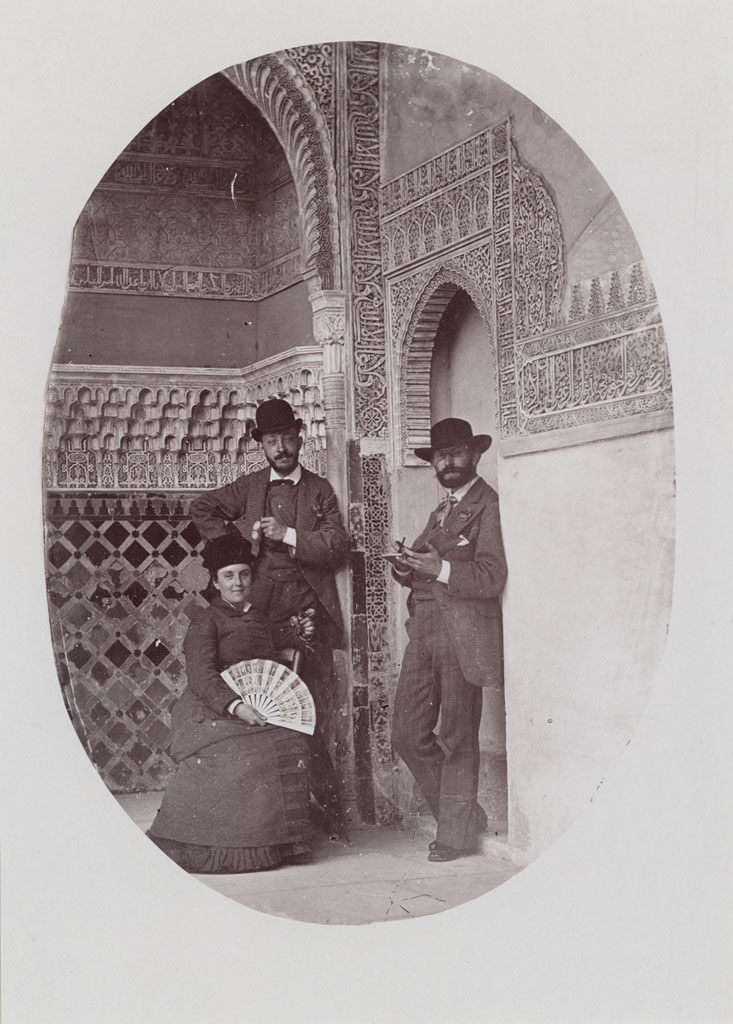 Calla Curman with a fan and two unidentified men, at the Alhambra palace area in Granada, Andalusia. Calla Curman med solfjäder och två okända män i palatsområdet Alhambra, i Granada, Andalusien, Spanien. Location: Granada, Andalucía, Spain Photograph by: Carl Curman Date: 1878 Format: Albumen print Persistent URL: Read more about the photo database (in english)